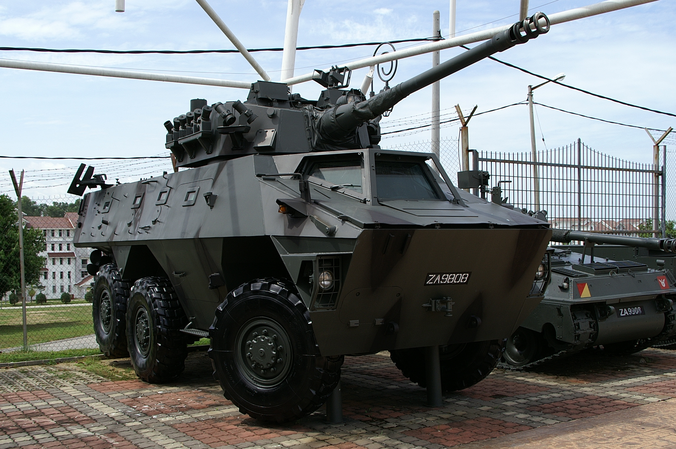 Sibmas AFSV-90 armoured fighting vehicle of the Malaysian Army, on exhibit in the Muzium Tentera Darat (Army Museum) in Port Dickson, Negeri Sembilan, Malaysia.